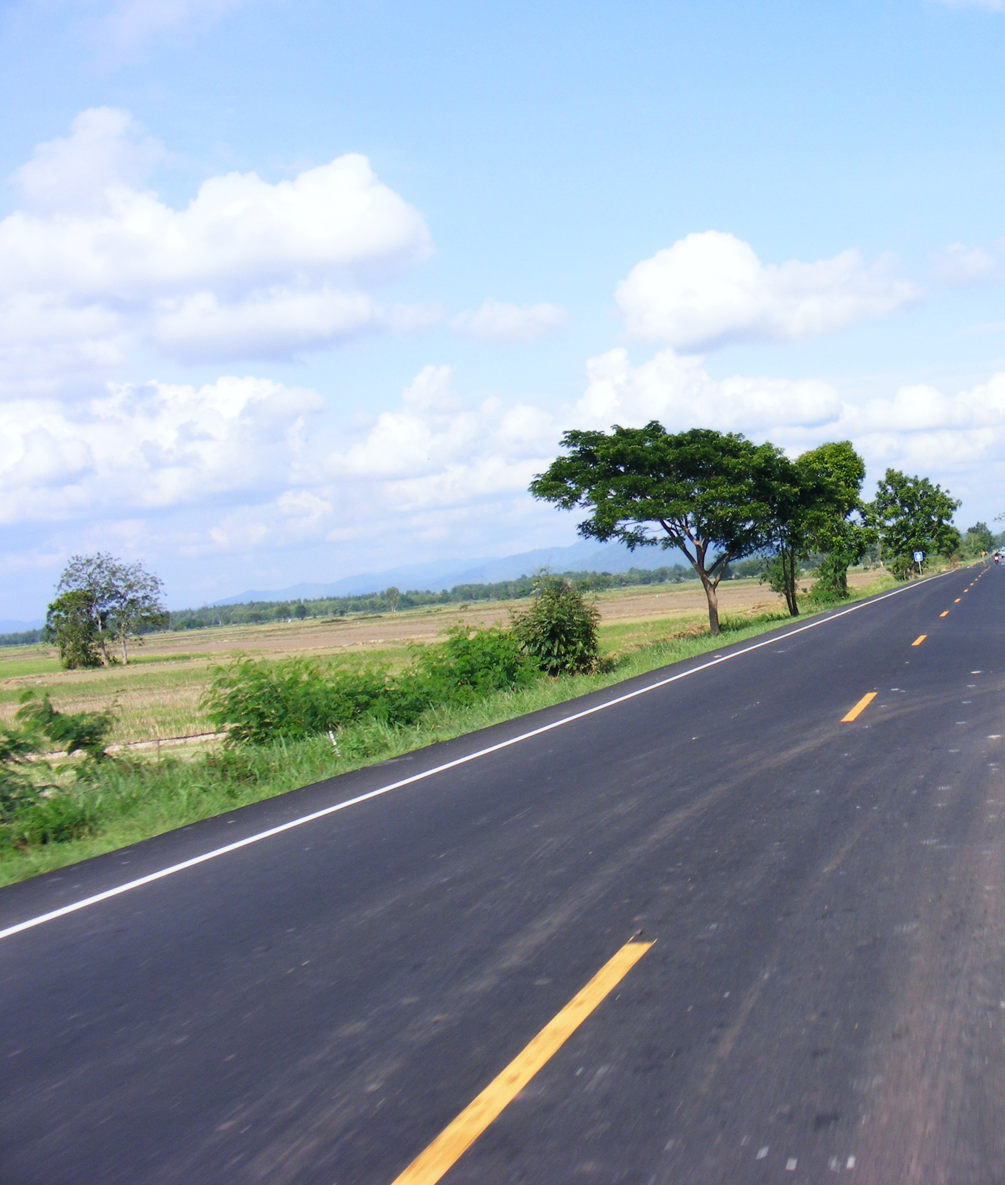 Thai Highway 1247 Location: Ban Khung Taphao, Khung Taphao subdistrict, Mueang Uttaradit, Uttaradit Province, Thailand.